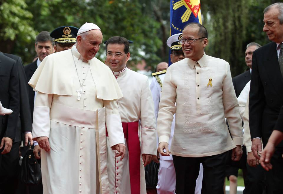 President Benigno S. Aquino III guides His Holiness Pope Francis towards the Palace Main Lobby of the Malacañan Palace during the welcome ceremony for the State Visit and Apostolic Journey to the Republic of the Philippines on Friday (January 16, 2015)